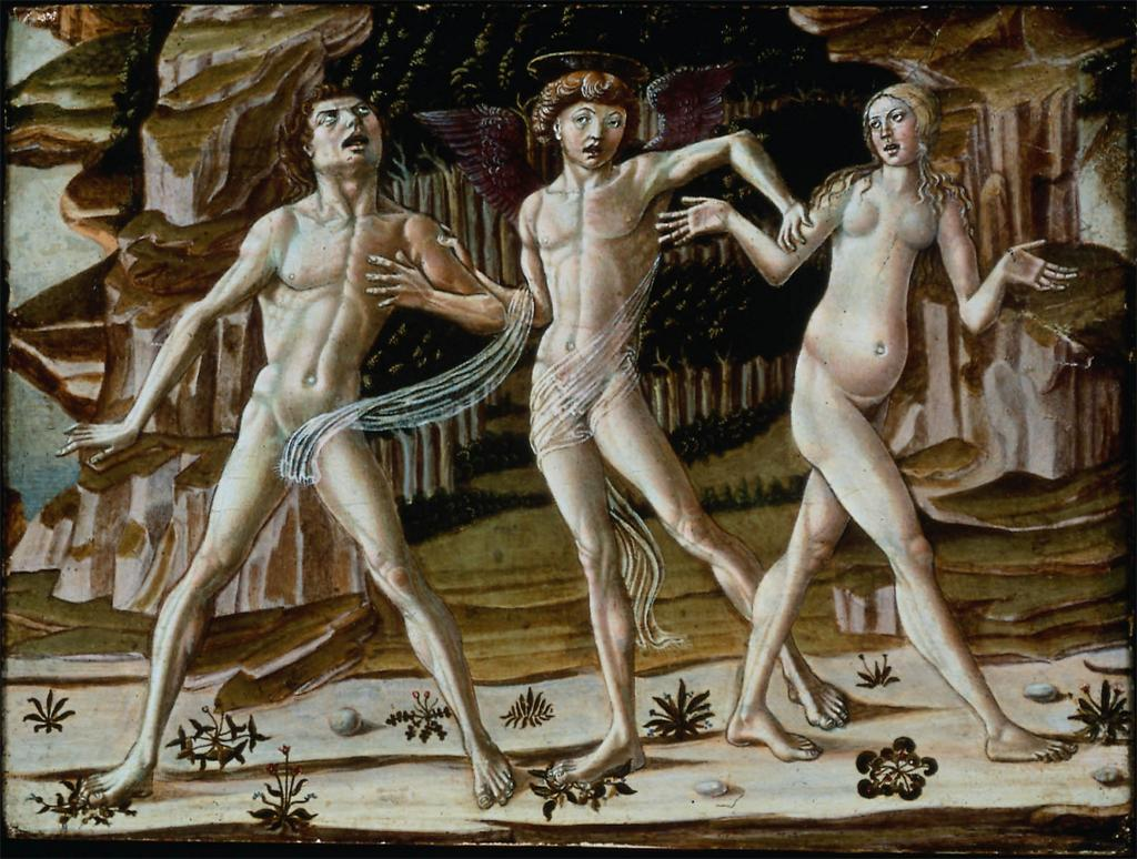 Creator: Benvenuto di Giovanni di Meo del Guasta; Italian (Sienese), 1436-about 1518, European; Southern European; Italian; Sienese; Date: 1470s; Material: Tempera on panel; Measurements: 25.7 x 34.6 cm (10 1/8 x 13 5/8 in.); Repository: Museum of Fine Arts, Boston; Boston, Massachusetts, USA; Charles Potter Kling Fund; 56.512